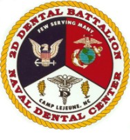 Insignia of 2d Dental Battalion